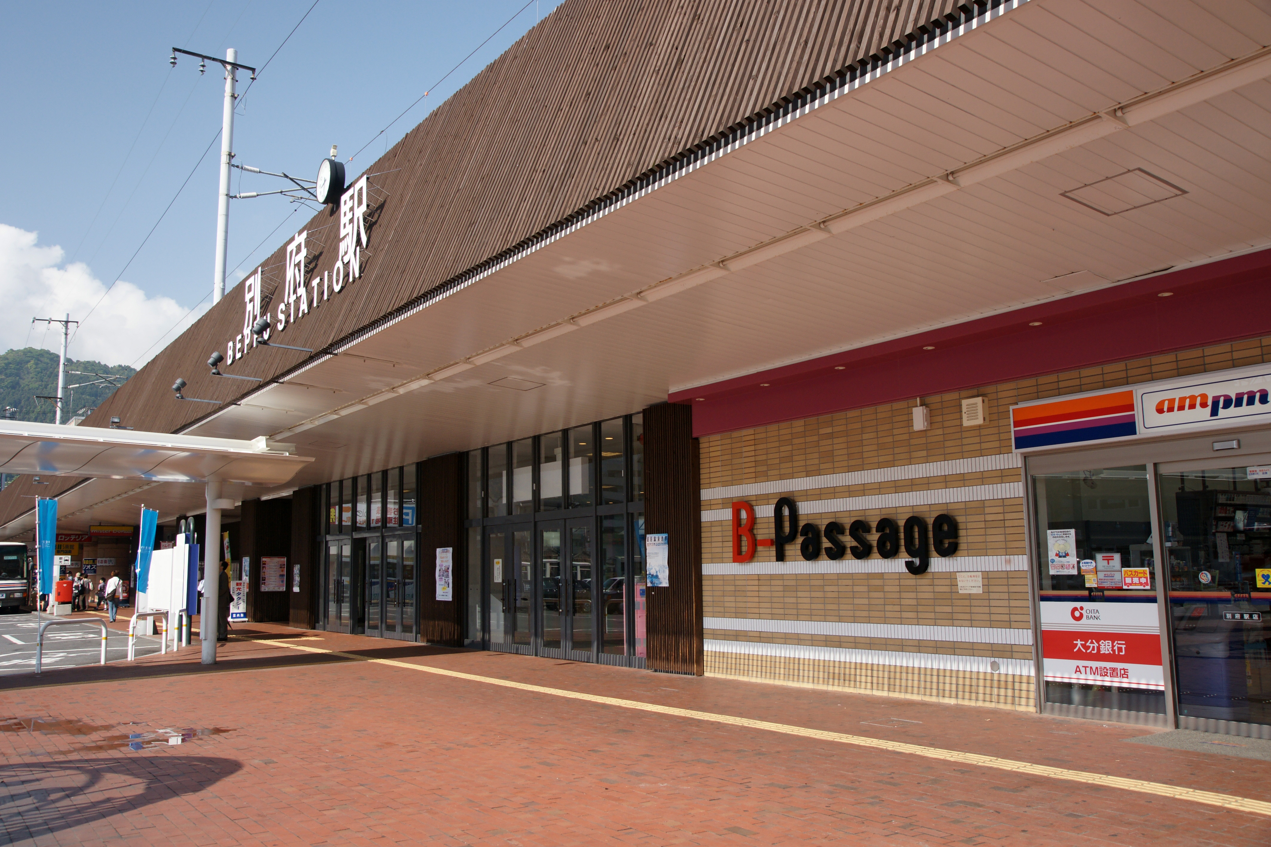 Beppu Station, Beppu, Oita prefecture, Japan